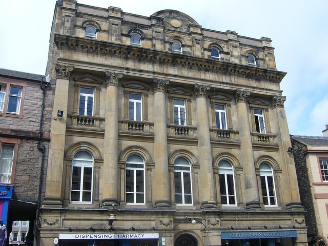 Carrubber's Close Mission, High Street Carrubber's Close Mission, now Carrubber's Christian Centre, is an imposing 19th century addition to the splendours of the Royal Mile. The foundation stone was laid in 1884 by the American evangelist Dwight Moody (of Moody and Sankey fame), who raised £10,000 for the cost of the building. Major restructuring of the interior in the 1990s led to the loss of the original pews. The ornamental supports for the electric lamps in the first-floor drawing room were recently acquired from the German Embassy in Washington D.C.